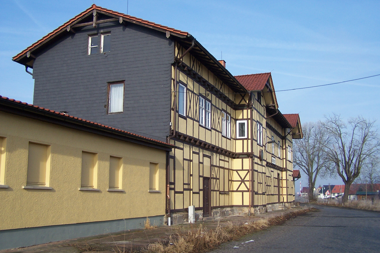 Railwaystation Immelborn.